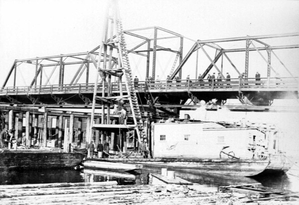 This is a picture of the johnson street bridge in Victoria BC